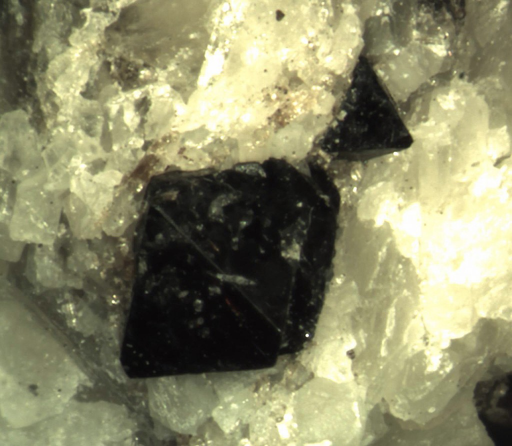 Locality: St Lawrence Columbium Mine, Oka complex, Oka, Deux-Montagnes RCM, Laurentides, Québec, Canada Two small crystals of uranpyrochlore in carbonatite matrix. The dimension of the largest crystal was 4mm. This specimen is significantly radioactive for it's size, X-ray identification shows these pyrochlores to be metamict. Collected 2007 - Donald Doell.